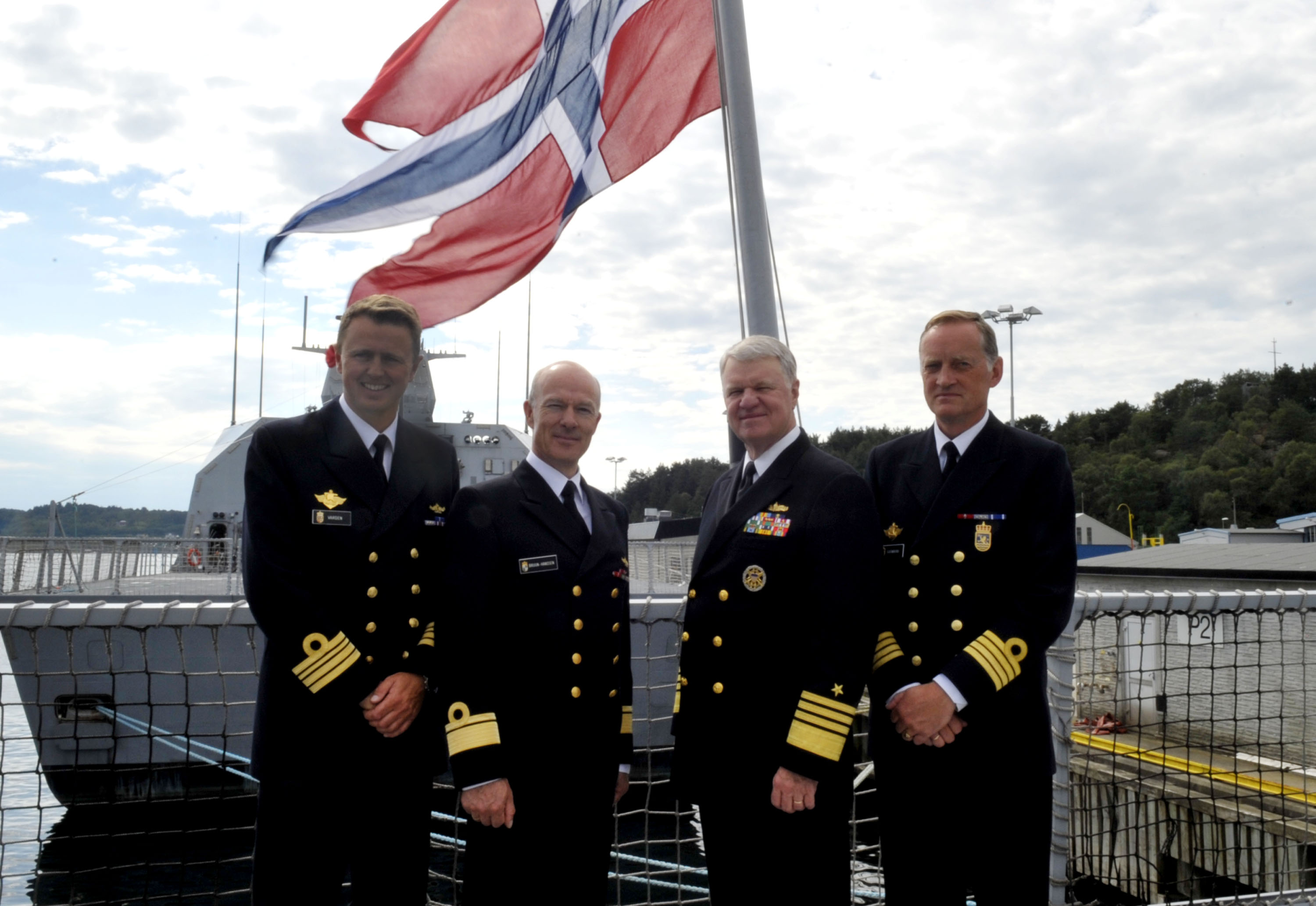 BERGEN, Norway - Chief of Naval Operations (CNO) Adm. Gary Roughead stands with Chief of the Royal Norwegian Navy Rear Adm. Haakon Bruun-Hanssen, middle left, and other senior leadership aboard the Royal Norwegian Navy Fridtjof Nansen-class frigate HNoMS Otto Sverdrup (F 312) while visiting Haakonsvern Naval Base in Bergen, Norway.